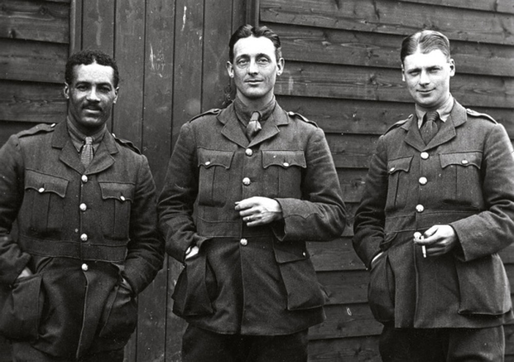 Walter Tull with British army comrades.